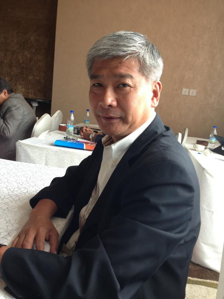 Mr Ching-Cheng Wang, the General Secretary of Chinese Taipei Athletics Association, was elected as the Individual Council member of Asian Athletics Association during 2013 Pune Asian Athletics Championships.